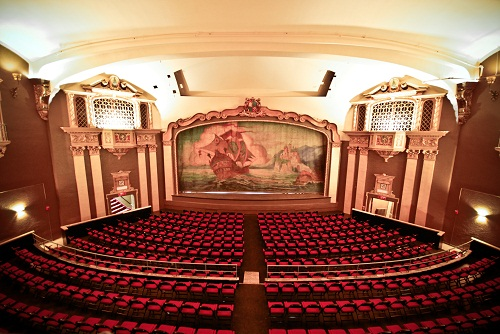 The interior of the State Theatre in Portland, Maine after 2010 renovations.